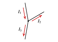 lei das correntes.